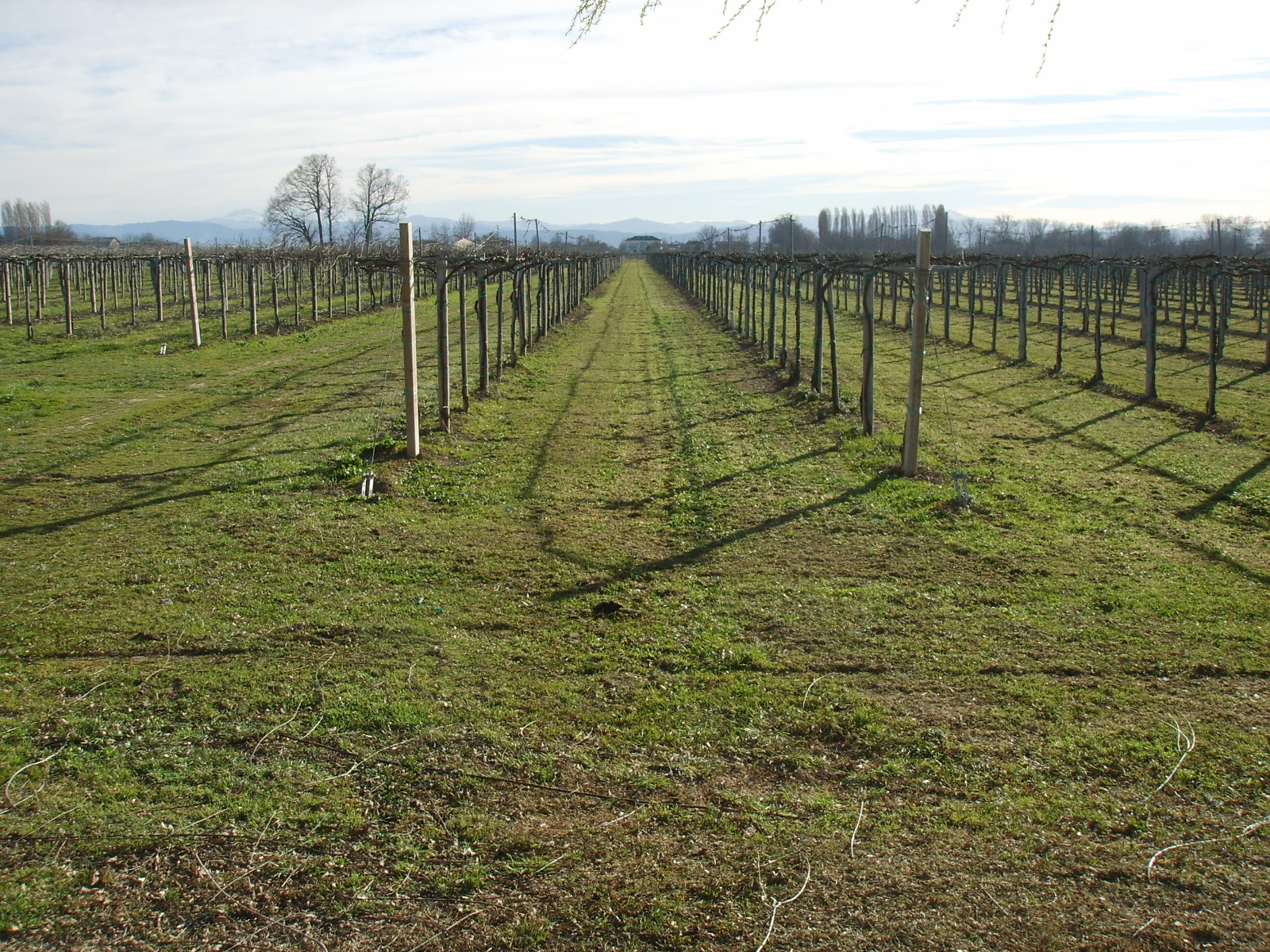 vineyards in march, between Rubiera and Campogalliano, Respectively province of Reggio Emilia and province of Modena)